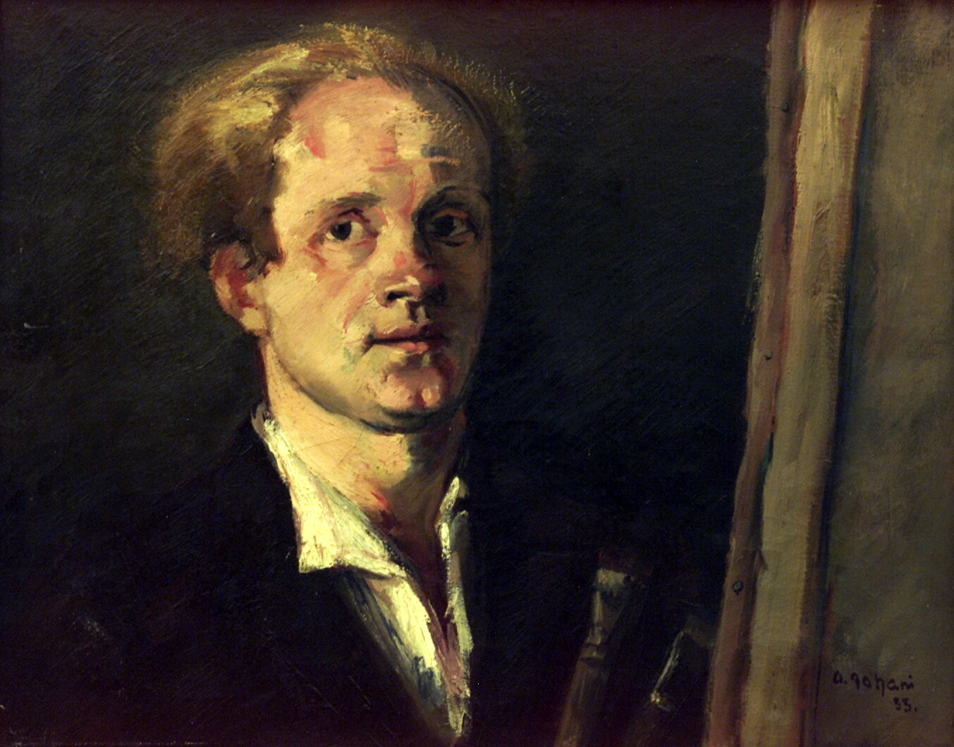 Andrus Johani, autoportree